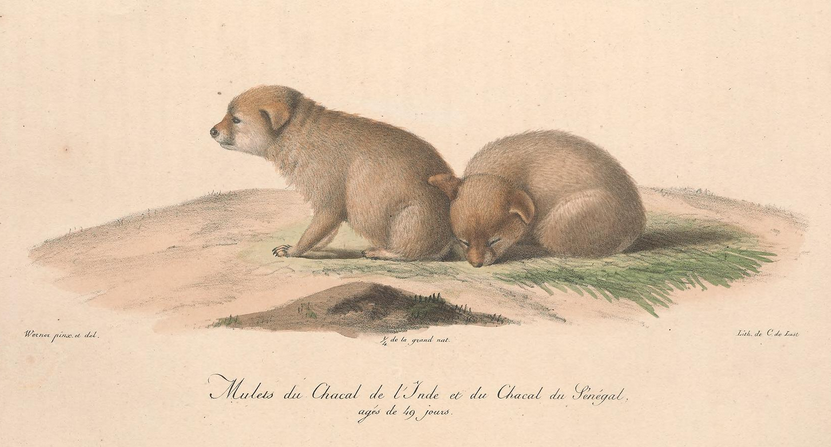 Engraving of 49-day old Canis aureus x Canis anthus hybrids.